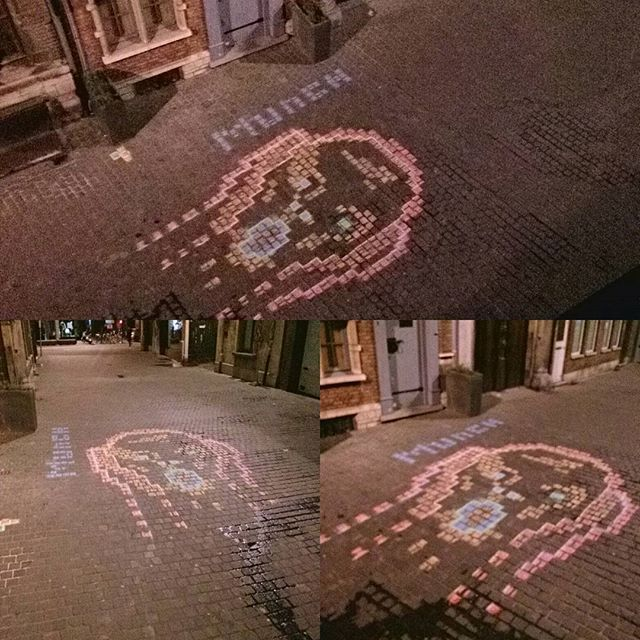 Chalkantwerp Everdijstraat Munch The Scream